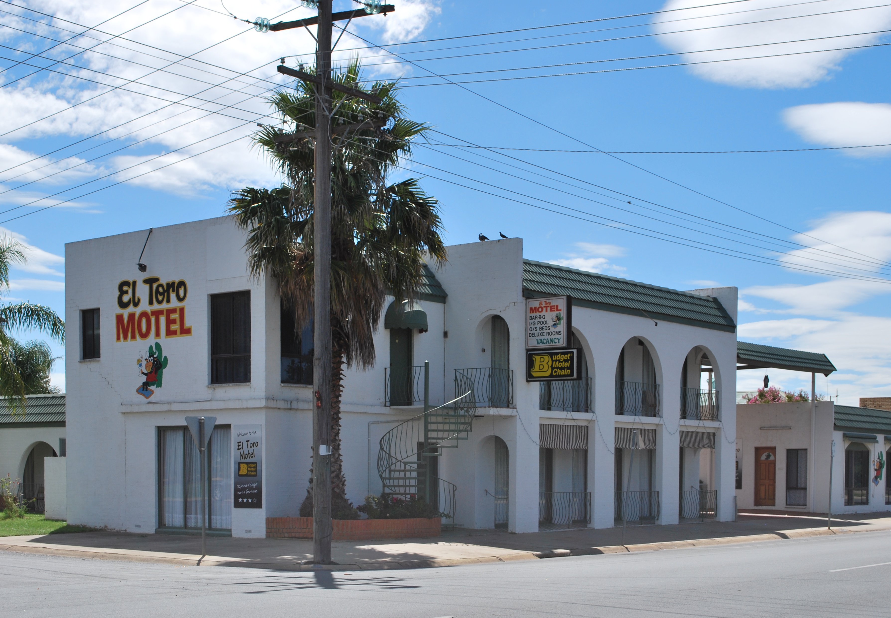 "El Toro" Motel, a mock Spanish building in Numurkah, Victoria